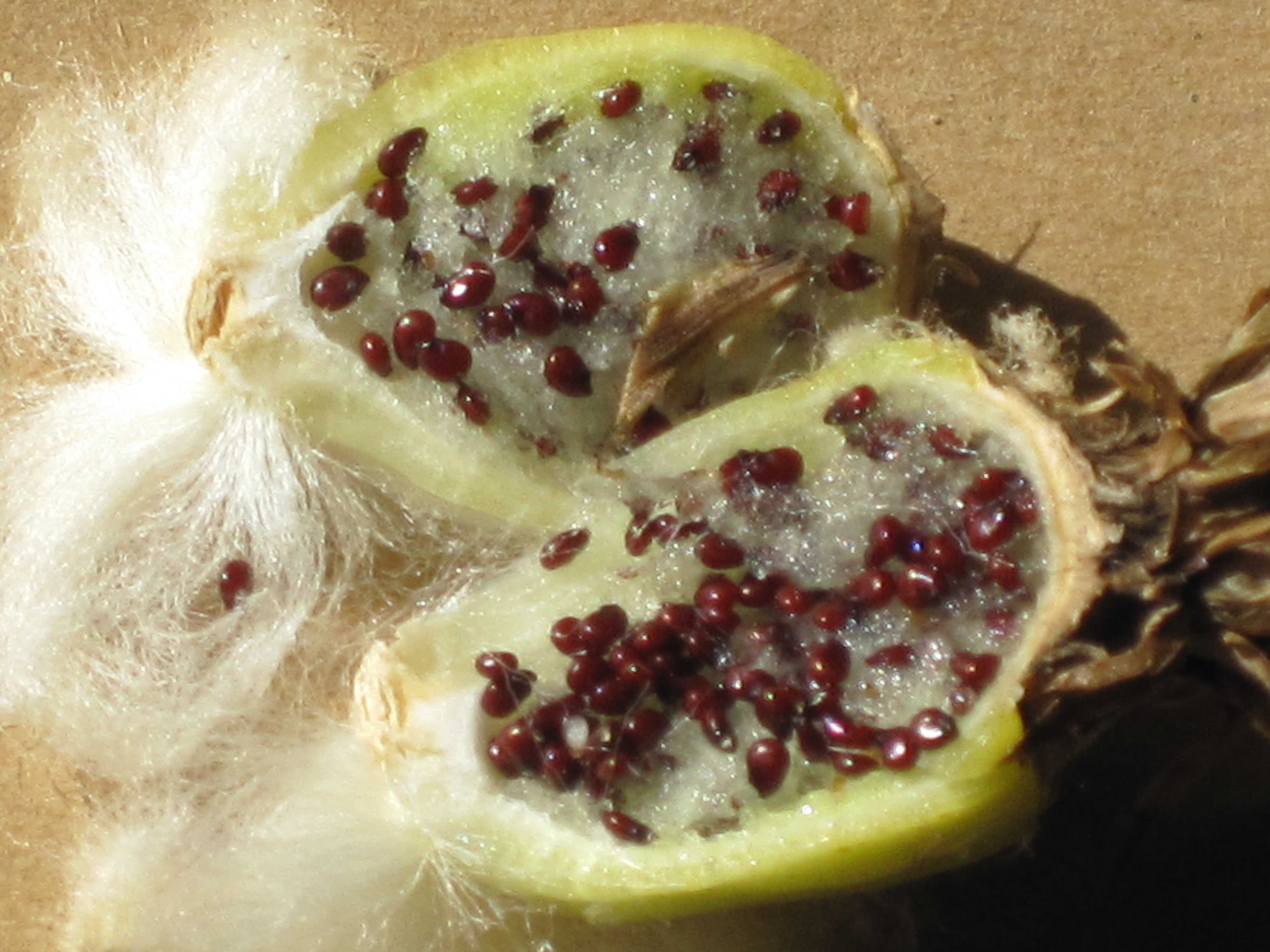 The seeds of echinocactus grusonii